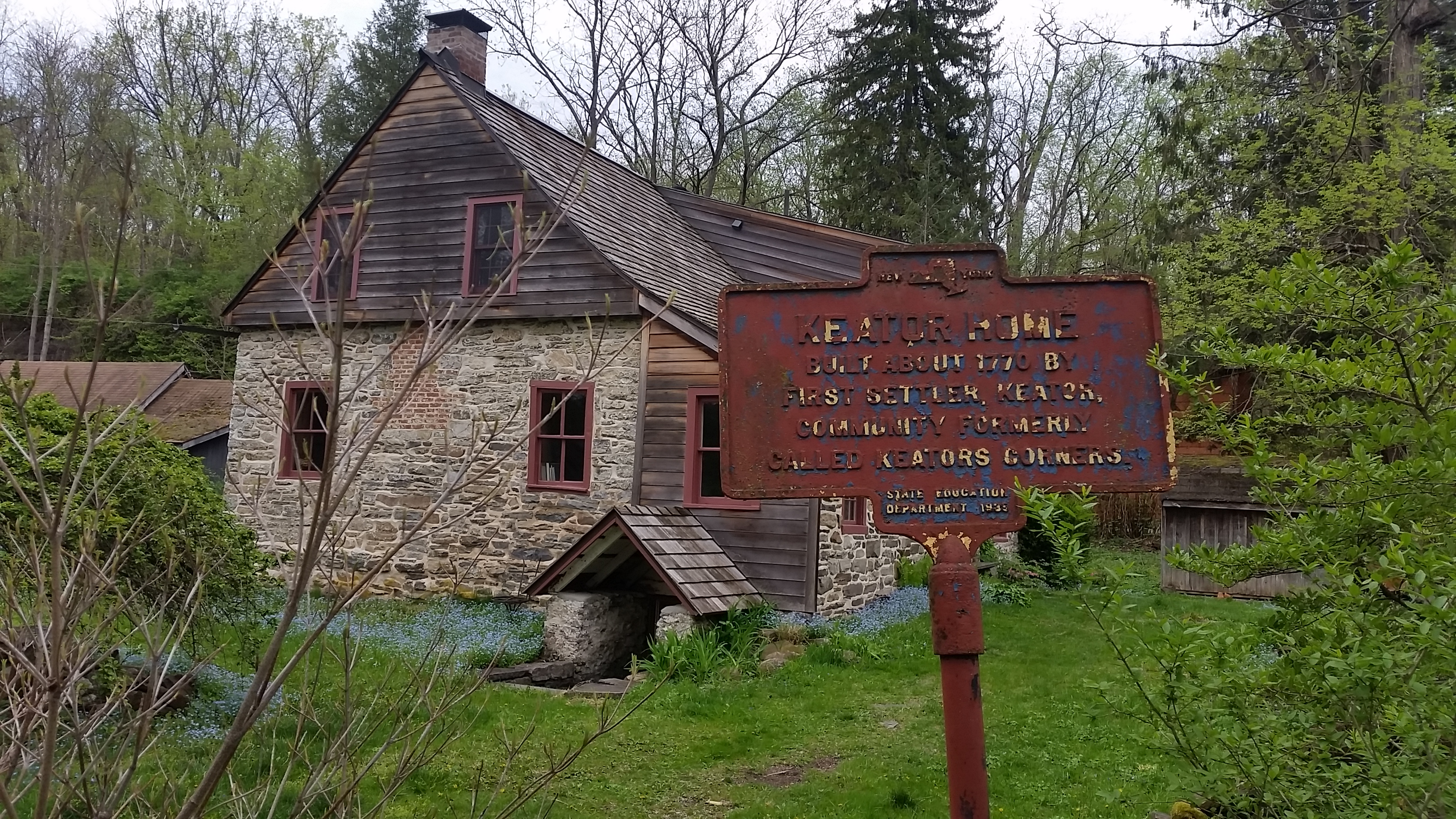 NY State Historical Marker for the Keator House in Rosendale, NY